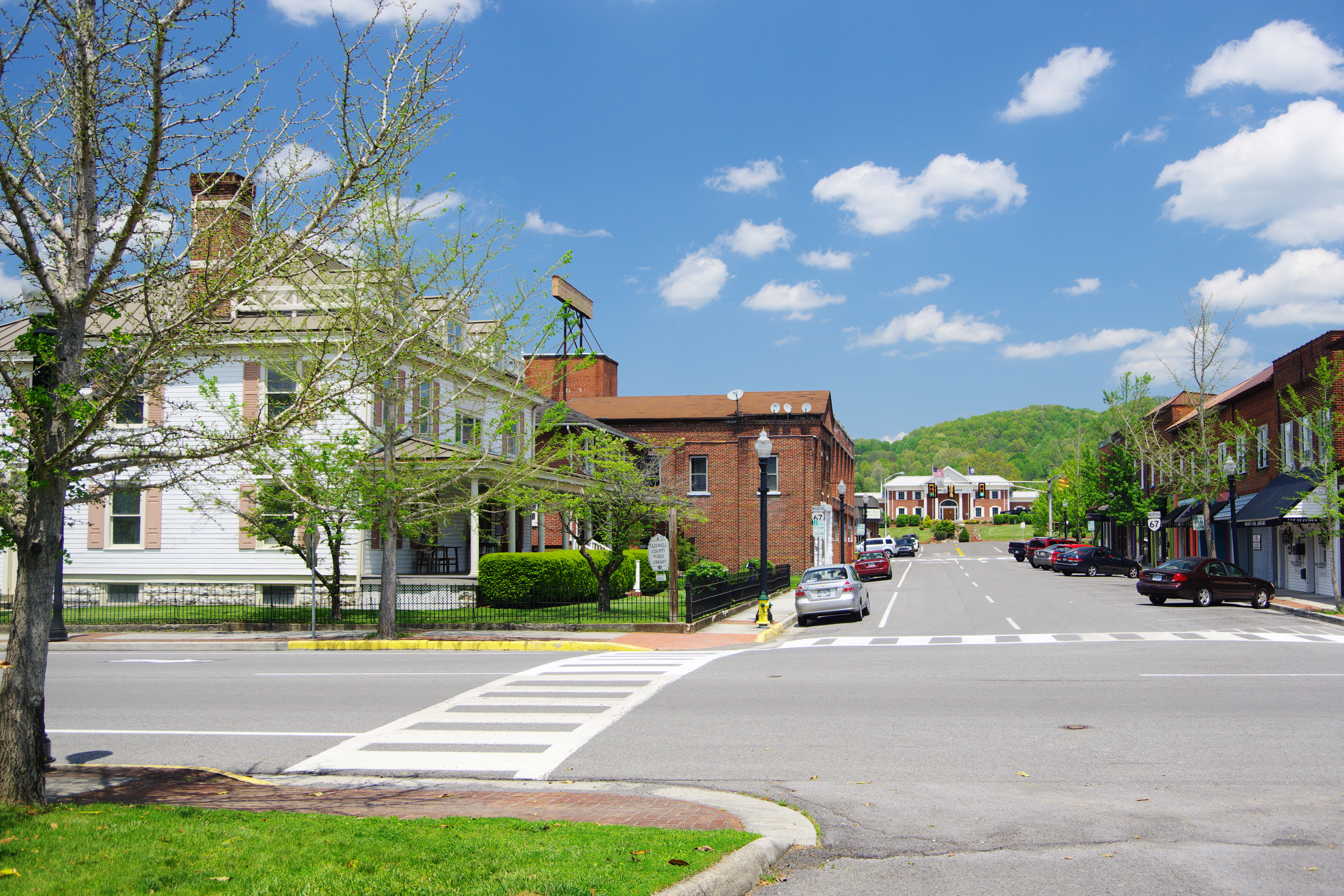 Buildings at the intersection of Front Street and Suffolk Avenue in Richlands, Virginia, United States. The Tazewell County Public Library is in the foreground on the left.